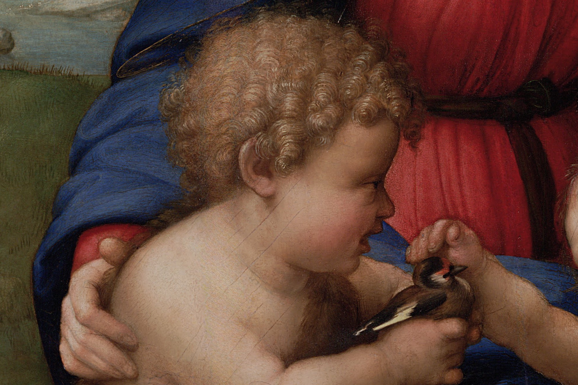 Detail showing Goldfinch of Madonna del Cardellino (Madonna of the Goldfinch) by Raphael in the Uffizi Gallery in Florence. From above image on Commons, and Google Art Project